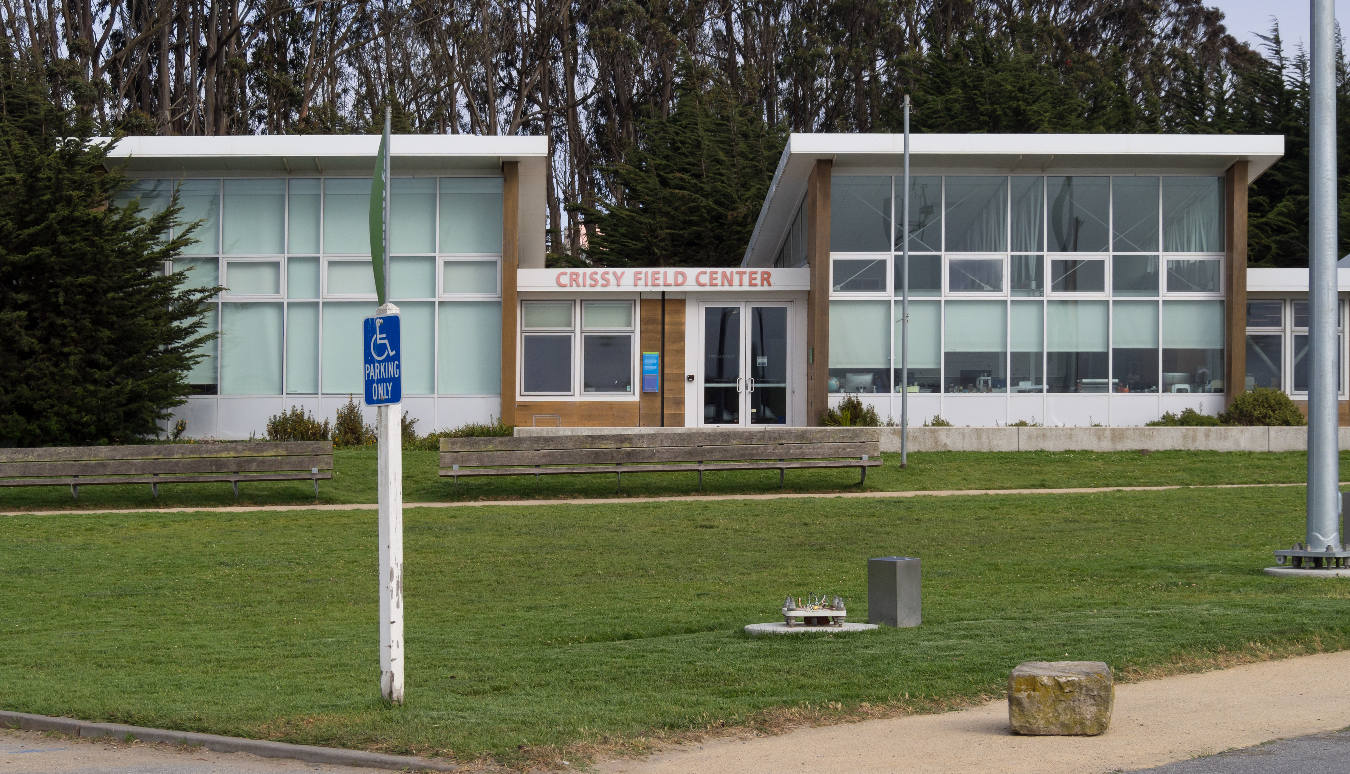 Crissy Field Center in San Francisco.